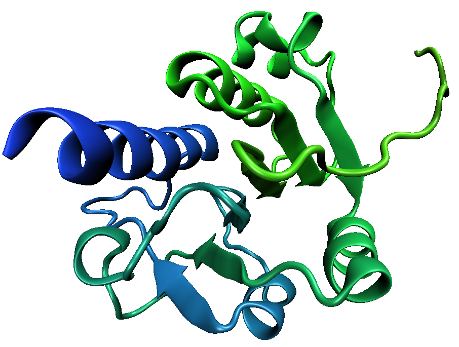 Illustration of a deep trefoil knot in an RNA methyltransferase protein (PDB ID 1IPA)